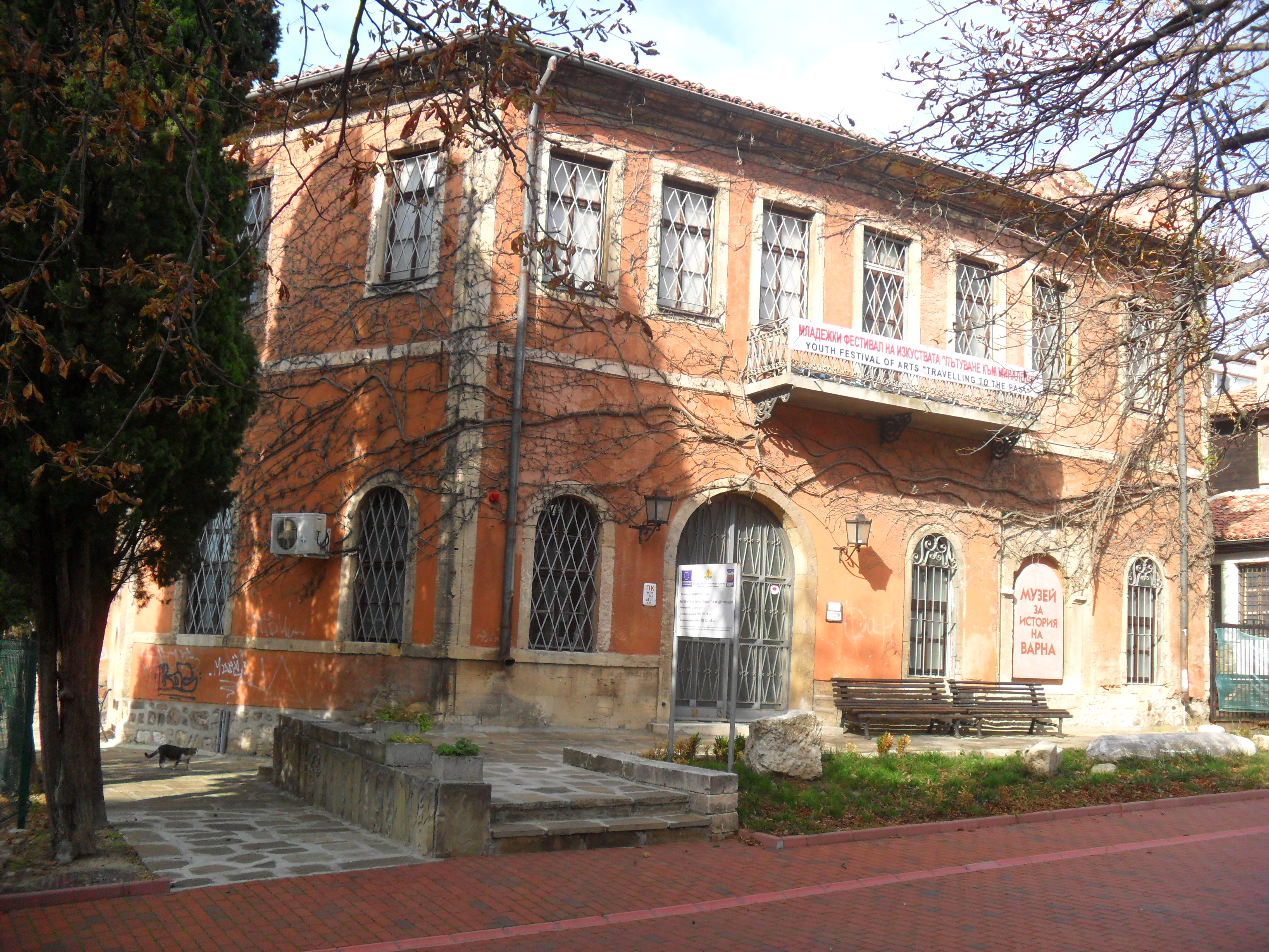 Varna,Bulgaria